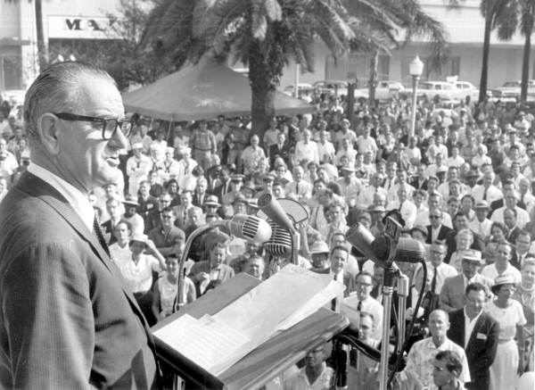 Local call number: RC19363 Title: Lyndon B. Johnson speaking at Hemming Park: Jacksonville, Florida Date: October 1960 Physical descrip: 1 photoprint - b&w - 8 x 10 in. Series Title: Repository: 500 S. Bronough St., Tallahassee, FL 32399-0250 USA. Contact: 850.245.6700. Persistent URL